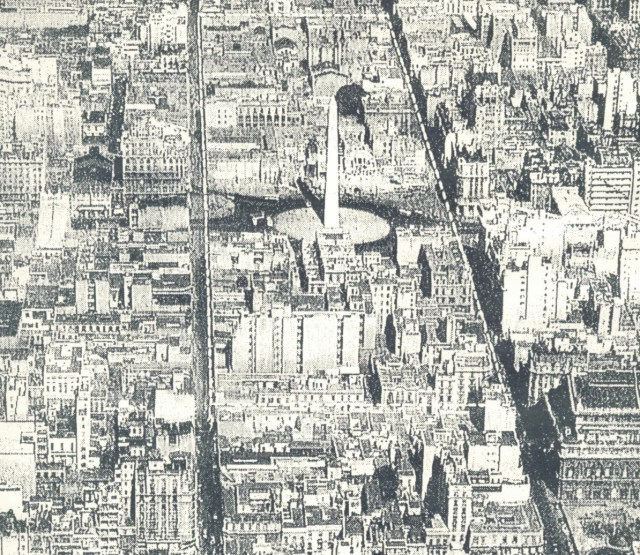 The Obelisk of Buenos Aires on the day of its inaugural, on May 23, 1936, before construction of 9 de Julio Avenue had begun.